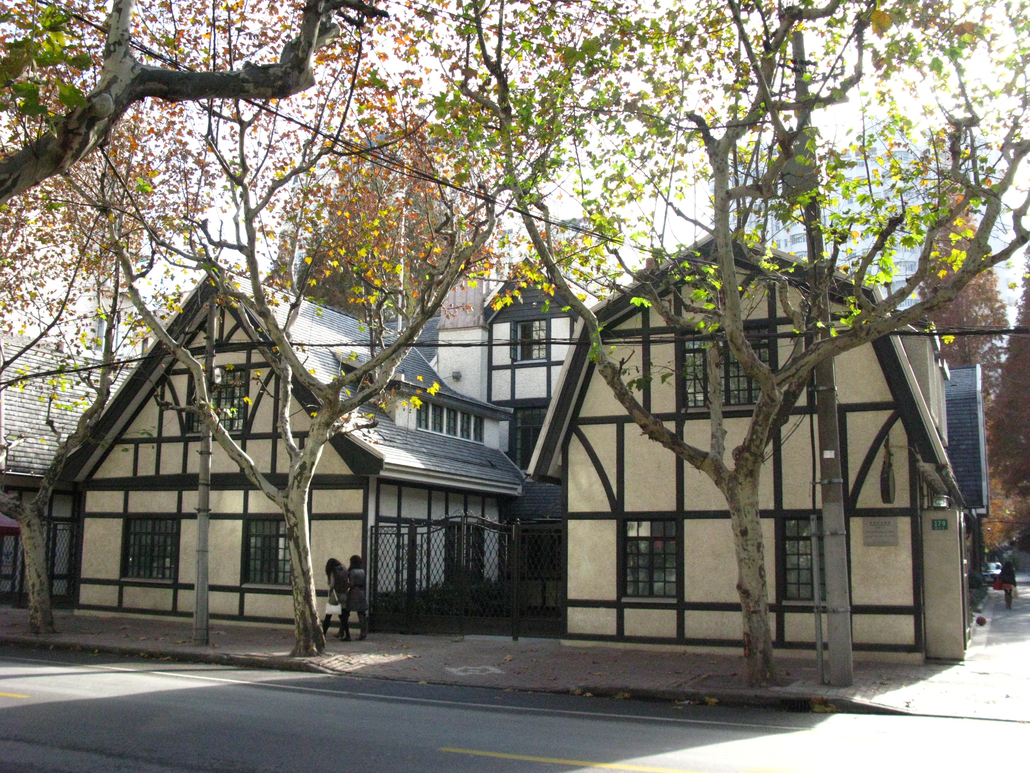 European-style houses on Xinhua Road, Shanghai, China.